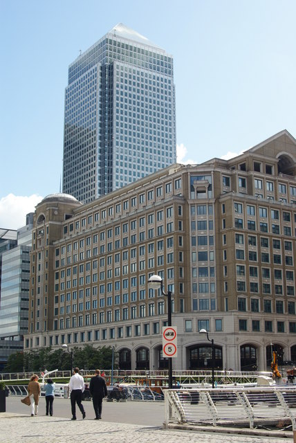 View From West India Quay Looking towards One Canada Square, Britain's tallest tower block (as of 2009).